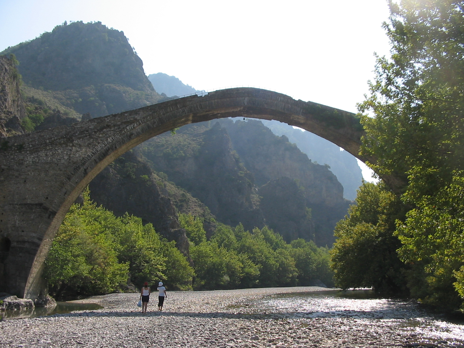 The old bridge of Konitsa over the river Aoos, one of the highest of its kind in Greece. Behind this bridge starts the Vikos-Aoos National Park. In winter, the river bed is completely covered with water. Under the bridge, a bell can be seen; local villagers say that when the wind is strong enough to make the bell produce sound, it is too dangerous to cross the bridge. Photo taken in August 2003 by Onno Zweers.